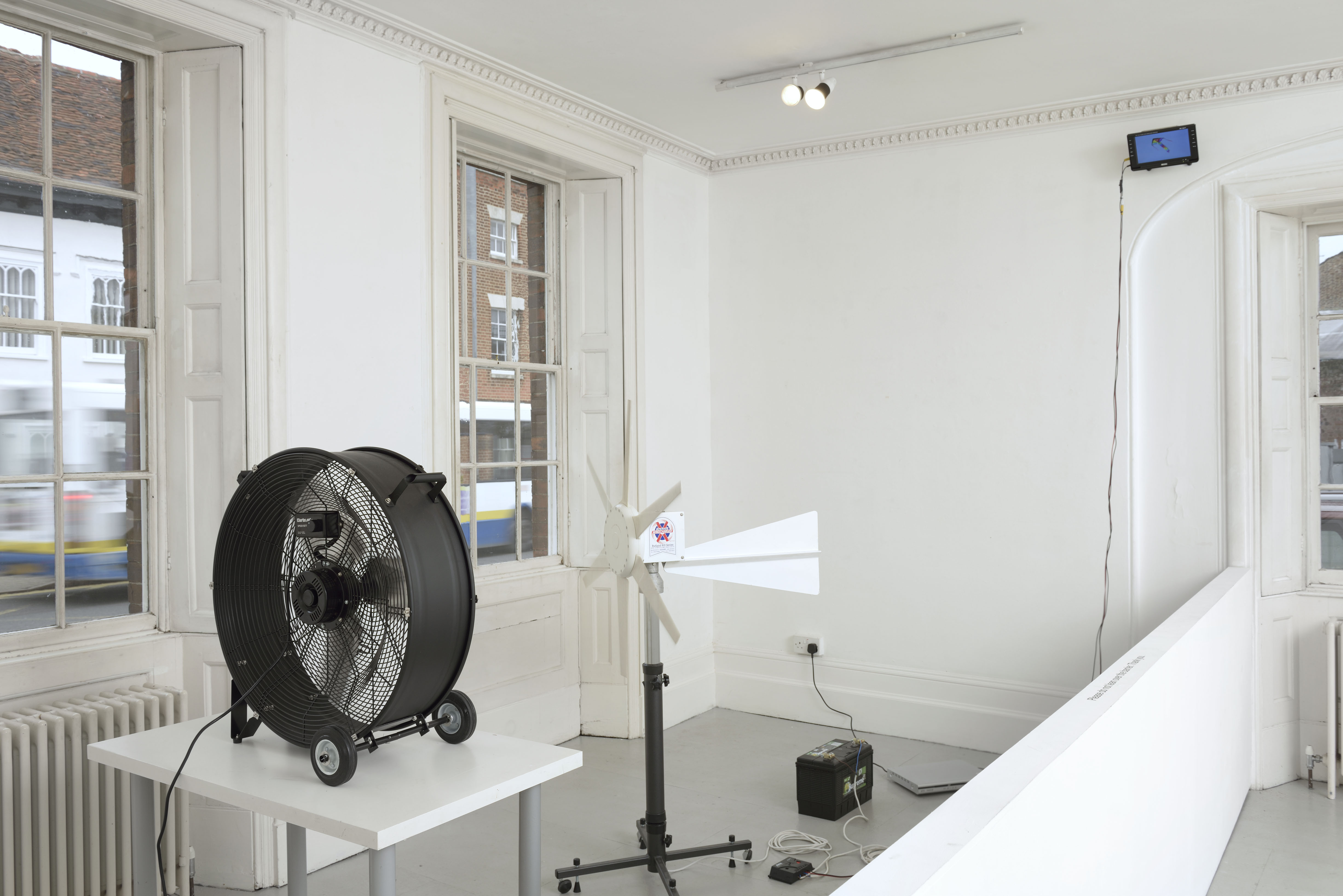 Installation view from Chris Meigh-Andrews' exhibition 'Sculpting with Light & Time: Video and Installations 1978-2014', at The Minories Galleries from 08.11.2014 to 03.01.2015